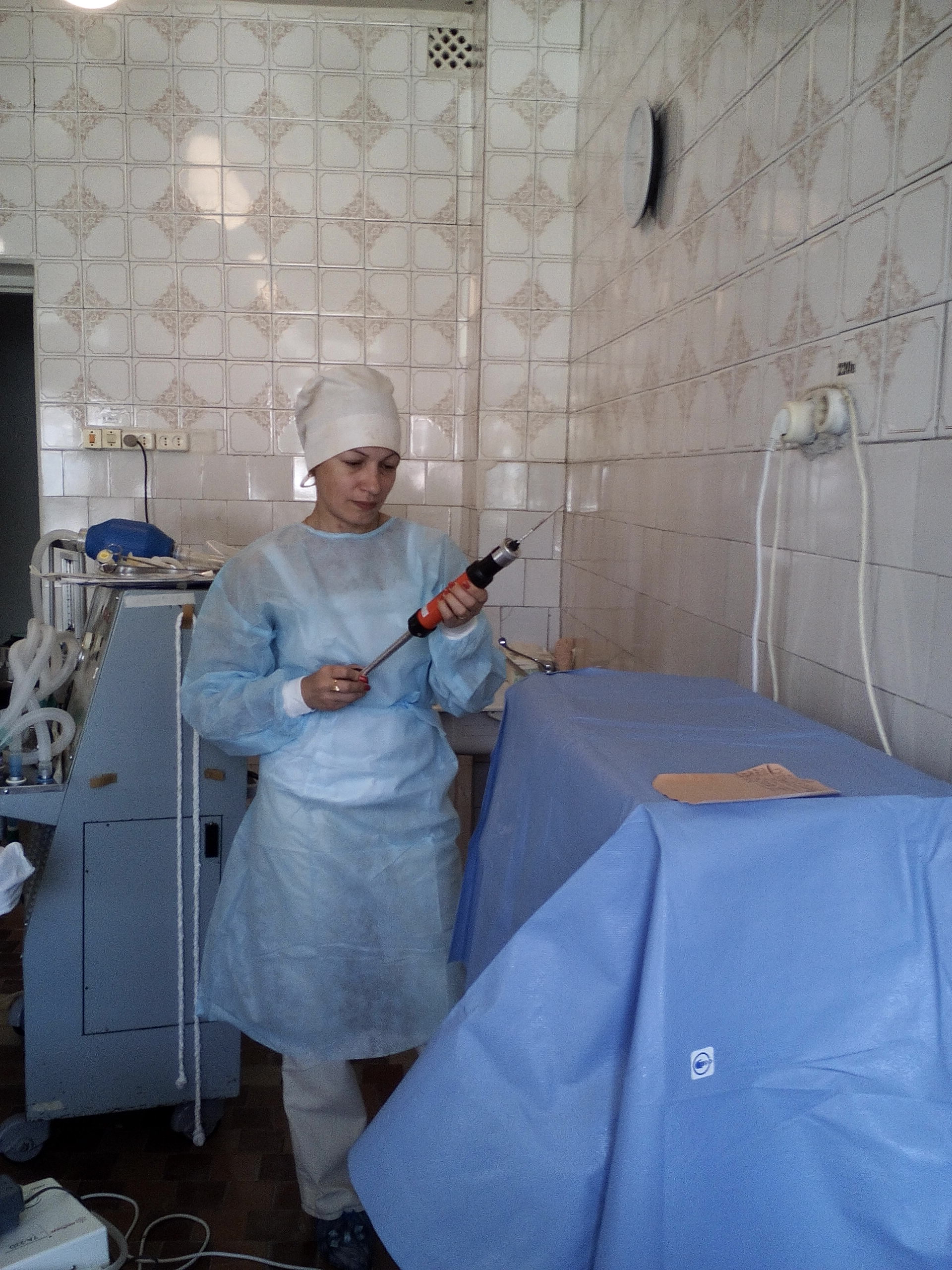 Air control